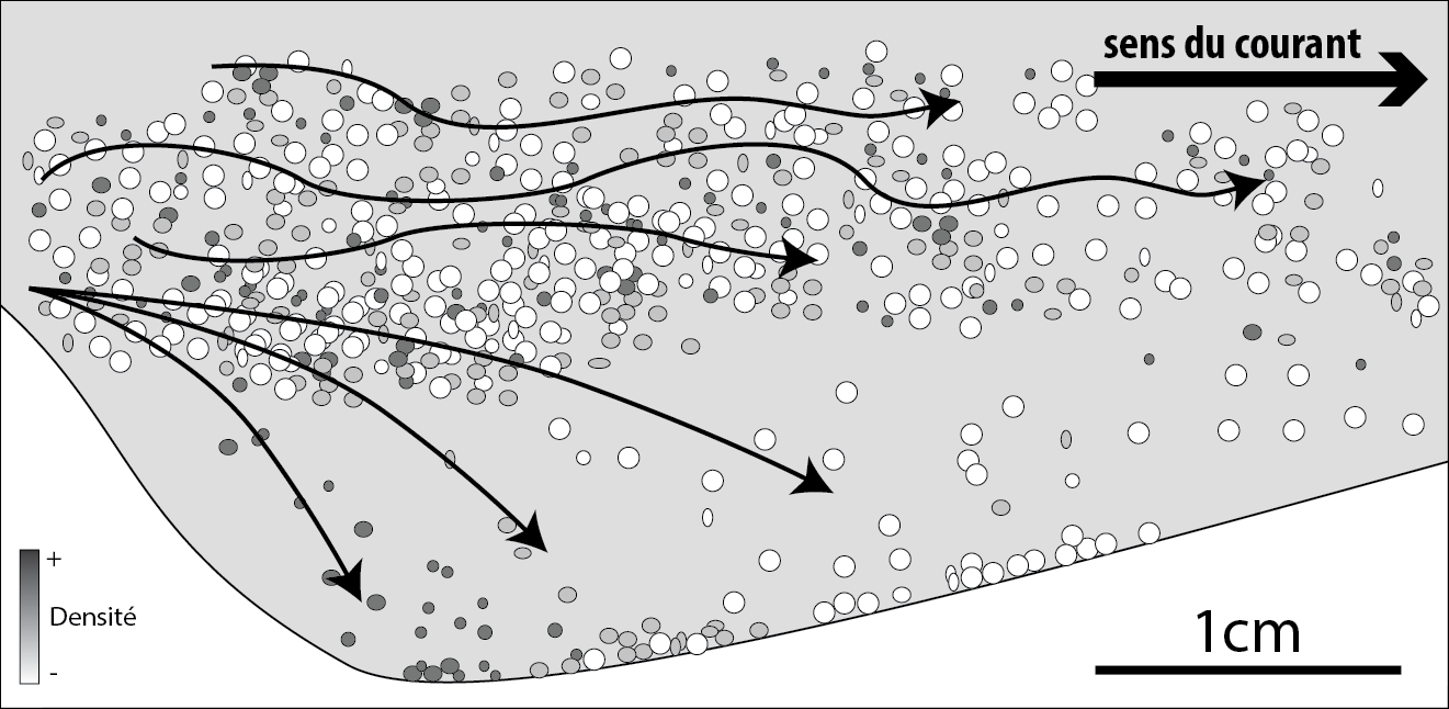 Density separation of a placer deposit